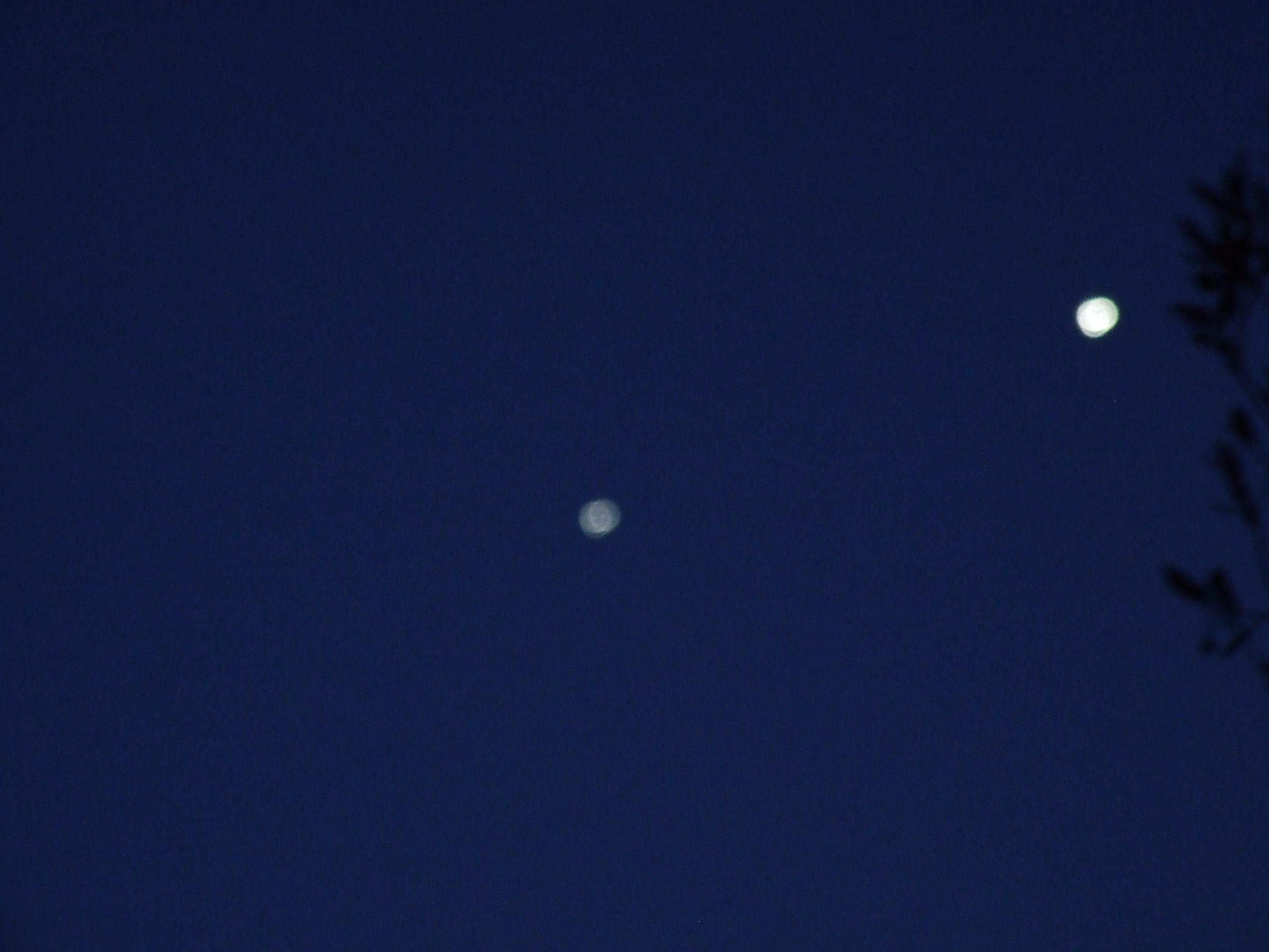 Venus (right) and Jupiter (left)